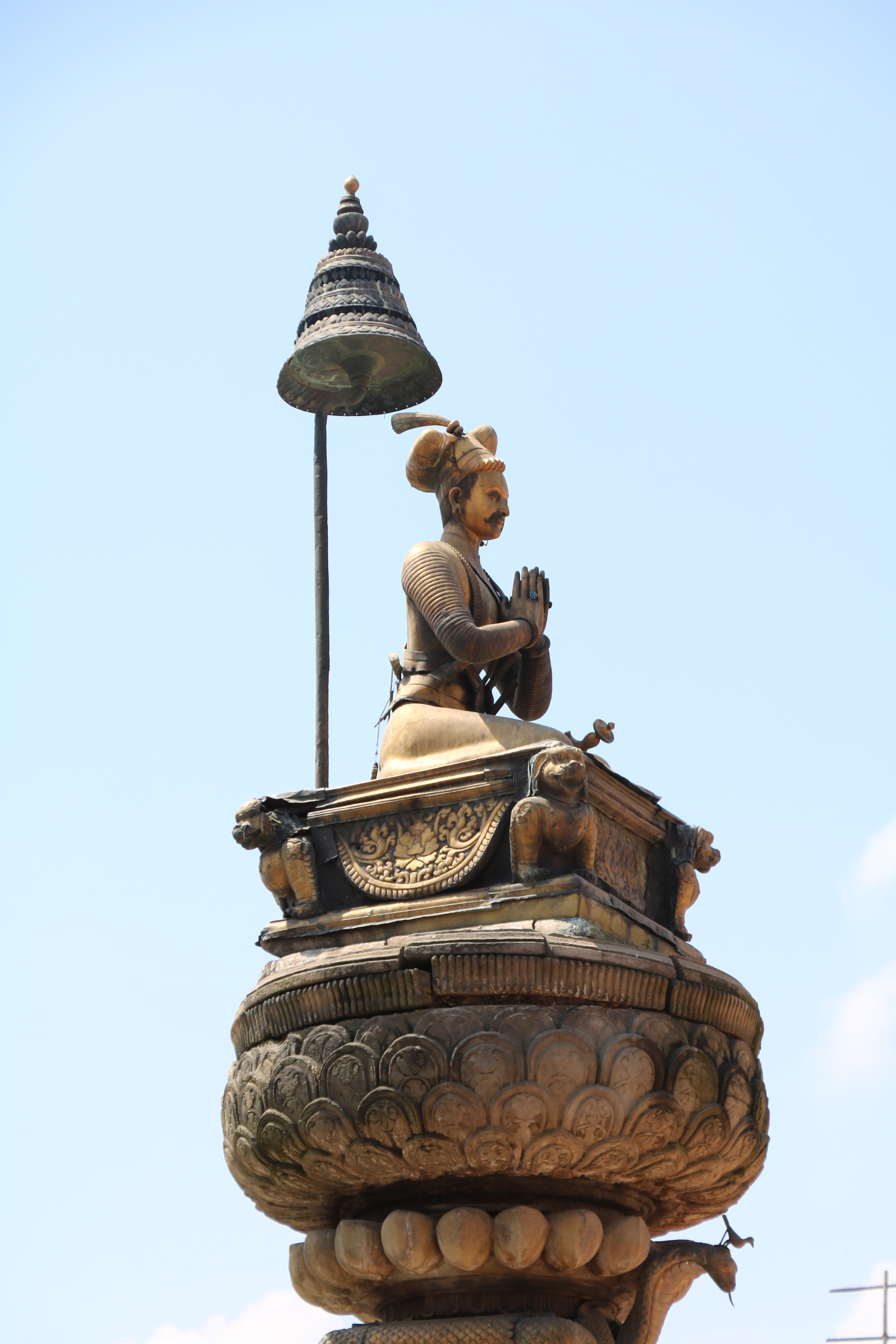 Statue of Bhupatindra Malla located at Bhaktapur Durbar Square. नेपाली: भक्तपुर दरवार क्षेत्रमा अवस्थित भूपतीन्द्र मल्लको सालिक ।